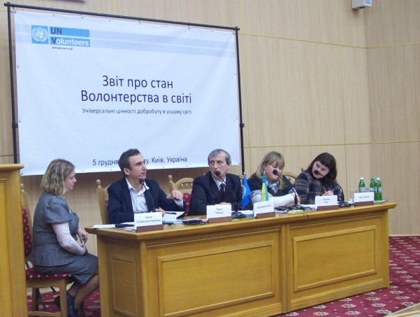 Presentation of first United Nations report about world's volunteerism. Taras Shevchenko National University of Kyiv, 5 December 2011 (descriptions of the event on the site of the university, on the site of NGO "Volunteer").